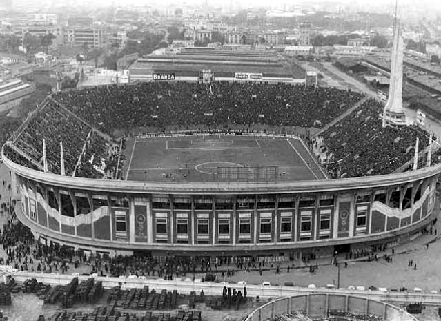 Stadium of C.A. Huracán during a Huracán v Boca Juniors match